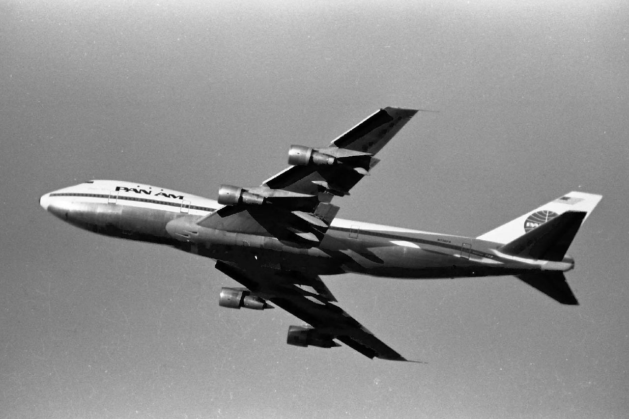 A Pan Am Boeing 747-121 (N736PA) named Clipper victor. This Boeing 747 operated the first 747 commercial flight in 1970. It was also the first Boeing 747 to be hijacked, which occurred the same year. There were no fatalities in the hijacking. This aircraft was destroyed in Tenerife Airport disaster in March 1977, when it was struck by a KLM Boeing 747-206B (PH-BUF).